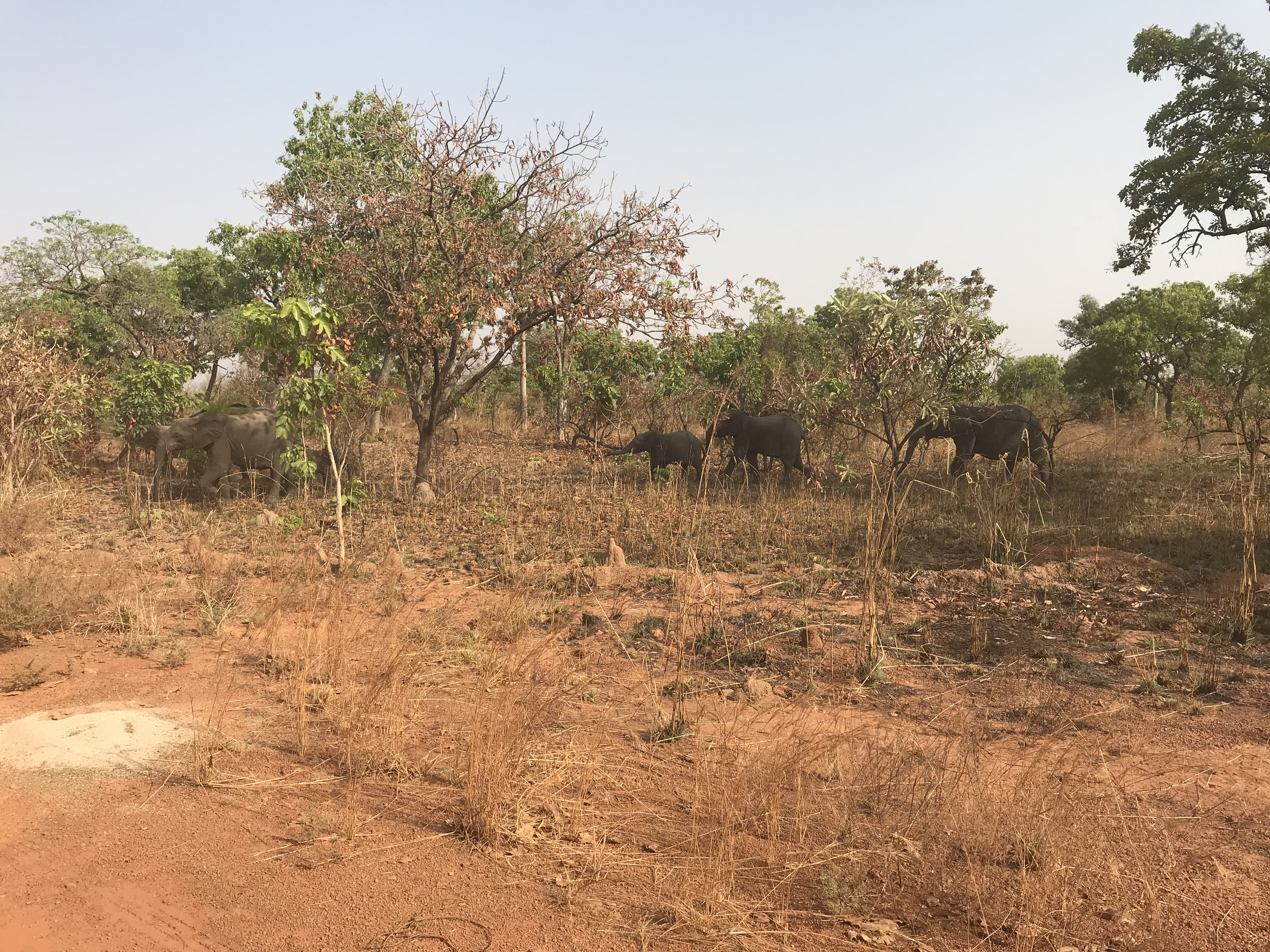 Elephants in the Nazinga National Park.